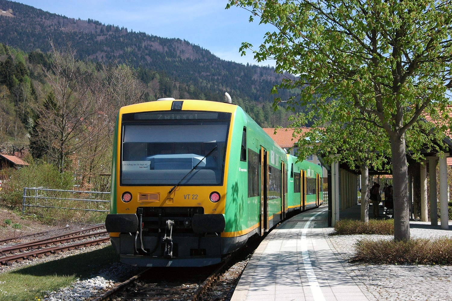 Two Diesel railcars of the Waldbahn at the platform of Bodenmais station - end point of the line Zwiesel-Bodenmais, Germany.